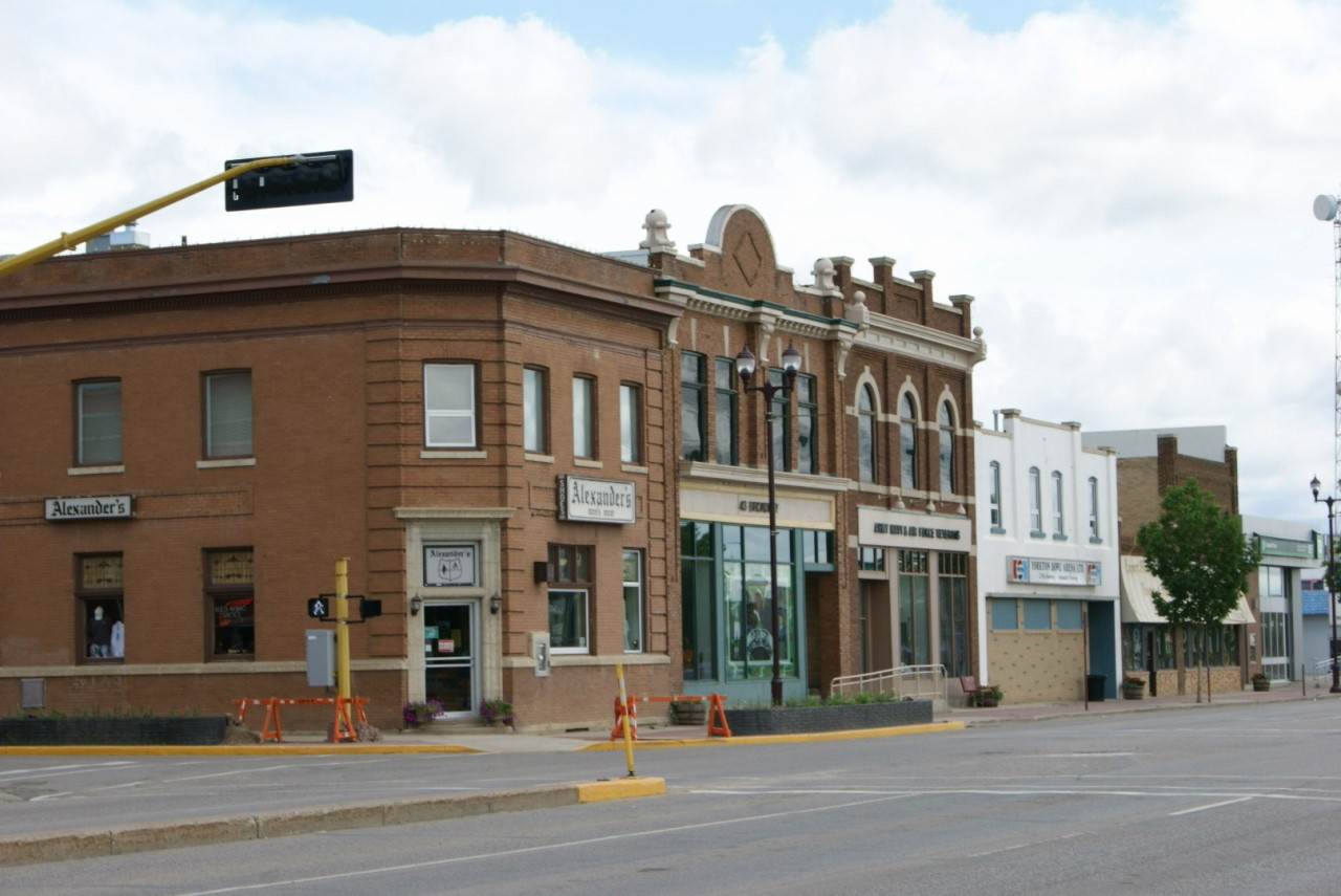 Yorkton, Downtown on corner of 3rd Ave. and Broadway Street.